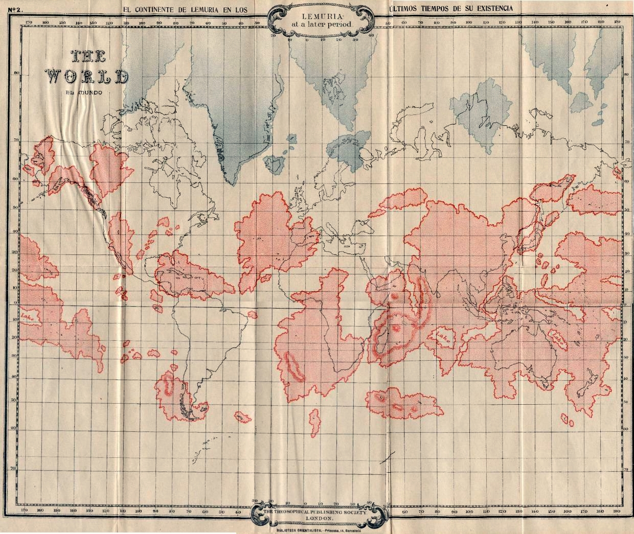 Map of Lemuria according to William Scott-Elliott